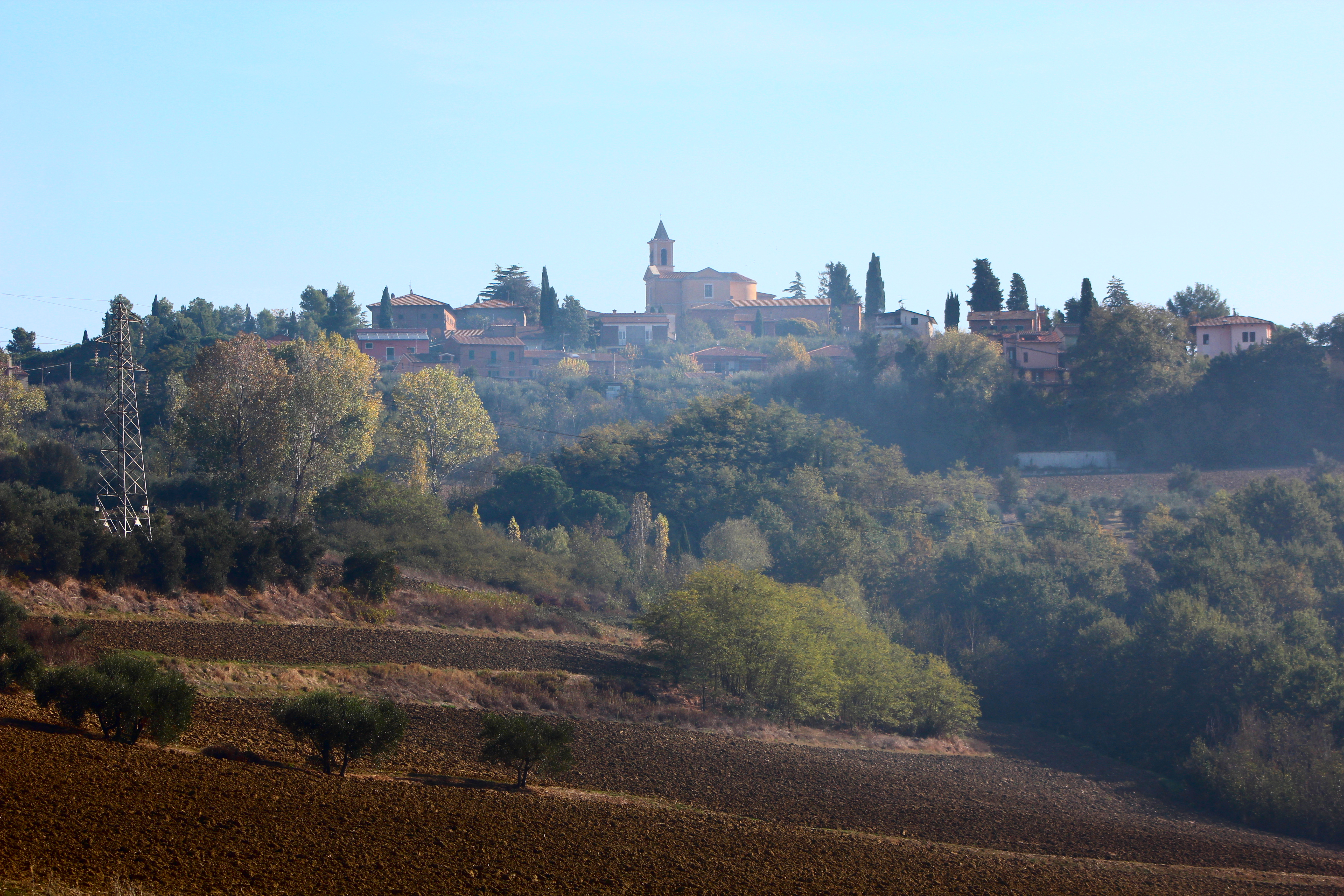 Vaiano, hamlet of Castiglione del Lago, Province of Perugia, Umbria, Italy